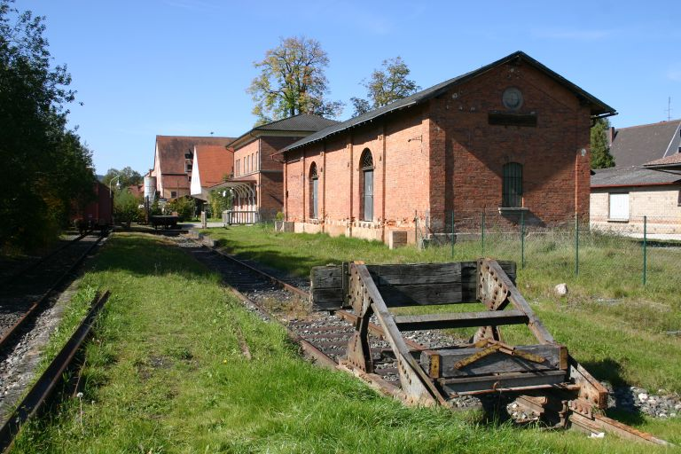 Bahnhof Spalt